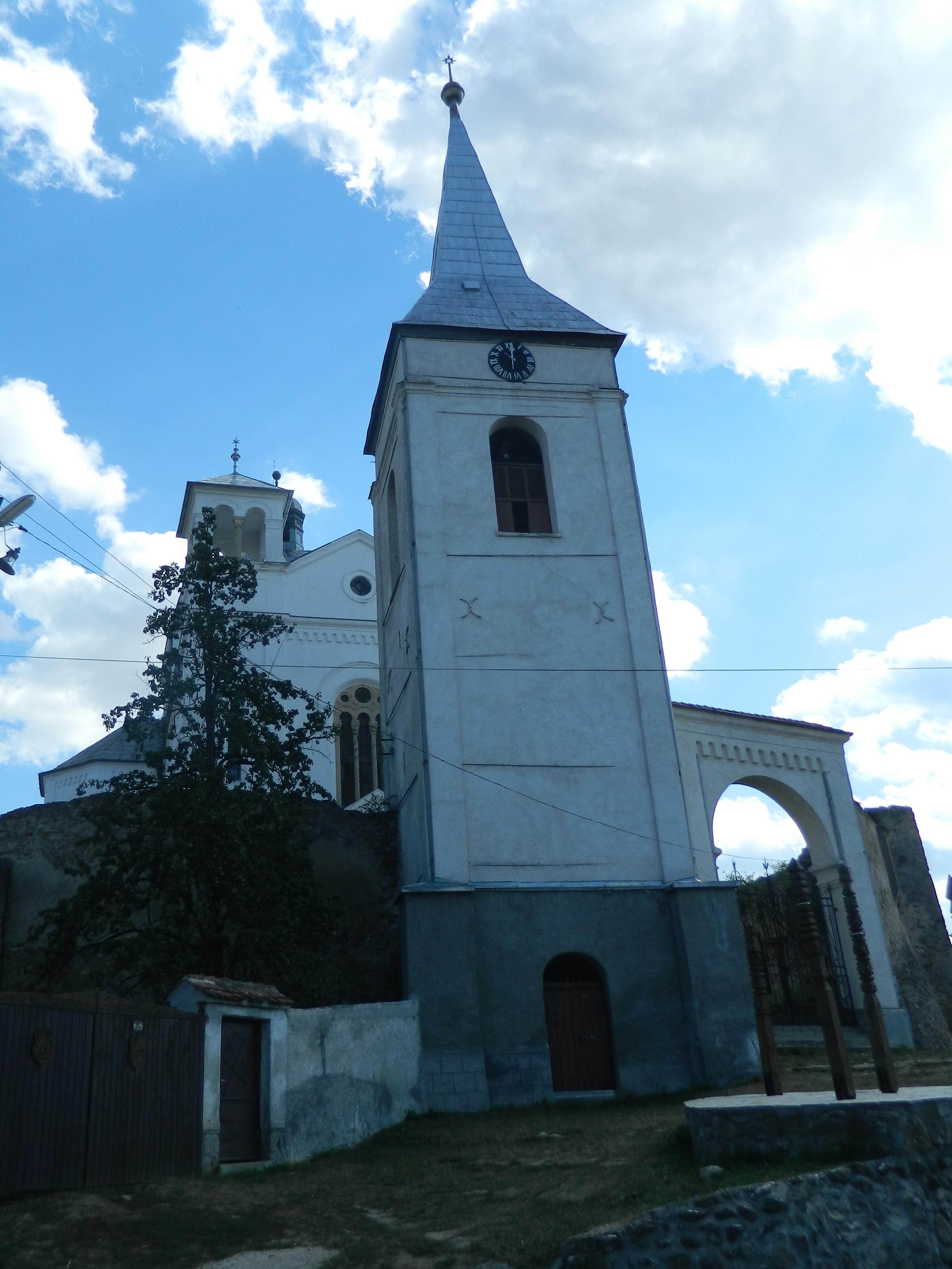 The complex of the Unitarian church in Belin (Covasna County) 02